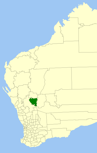 Location of the Local Government Area in Western Australia